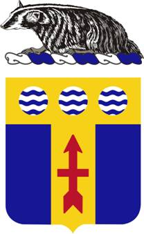 128th Infantry Regiment Coat of Arms